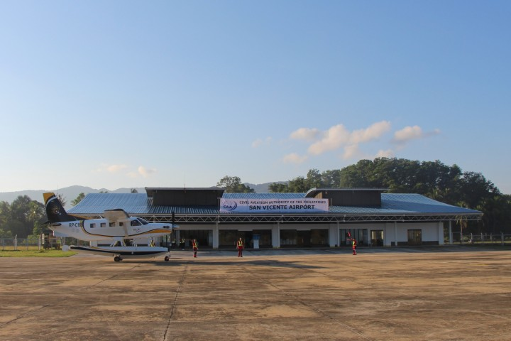 Exterior of San Vicente Airport in San Vicente, Palawan in the Philippines. Tagalog: Labas ng Paliparan ng San Vicente sa San Vicente, Palawan sa Pilipinas.